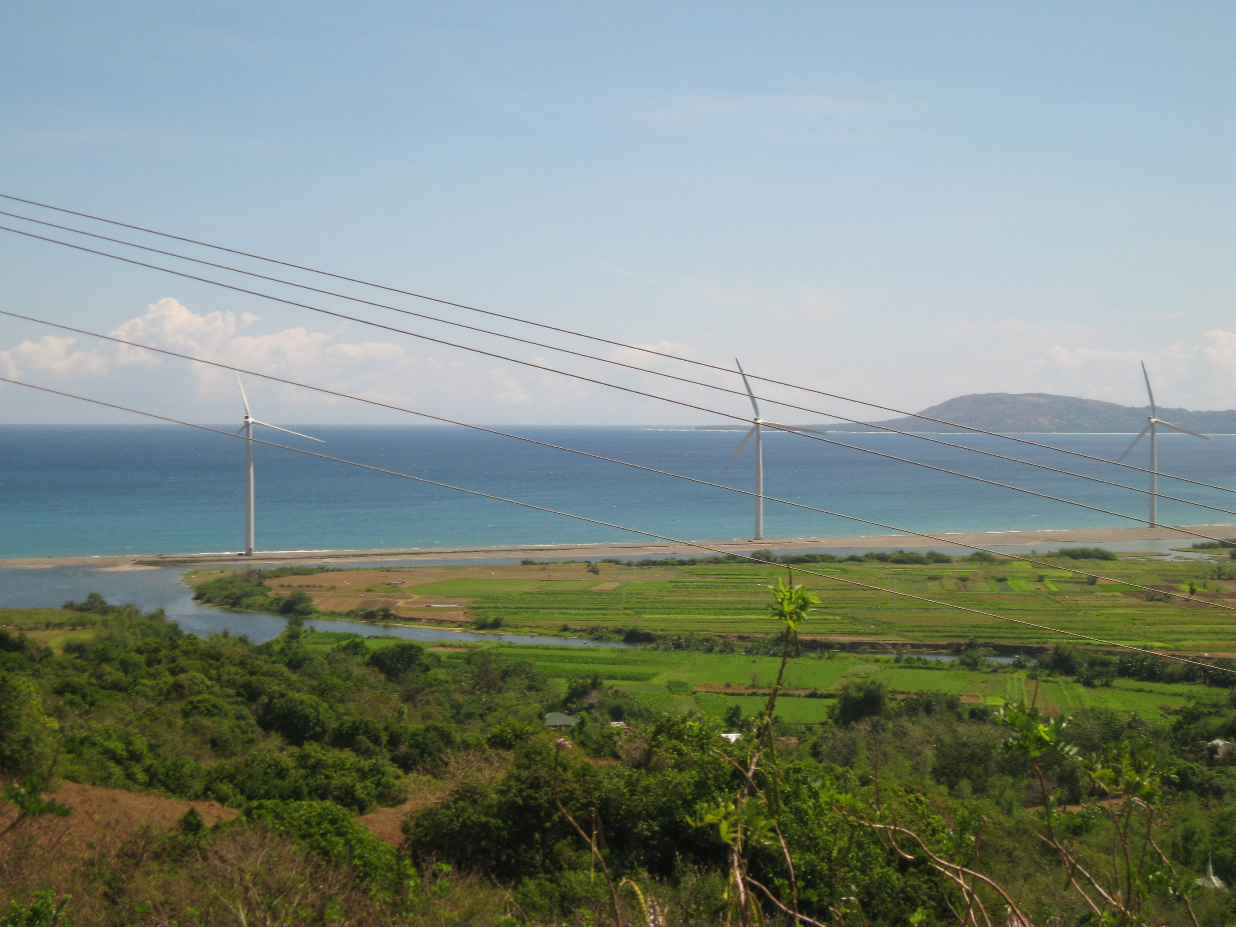 Bangui Windmills taken at Viewing Deck self-made April 2008 Reinbowe (talk) 03:06, 21 April 2008 (UTC)